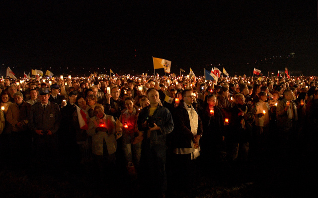 A photo from "White Walk" organised 7-apr-2005 in Cracow, Poland to thank for the John Paul II pontificate. On this photo: Błonia park during the mass. Photographer: Michał Miłoś (Michal Milos)